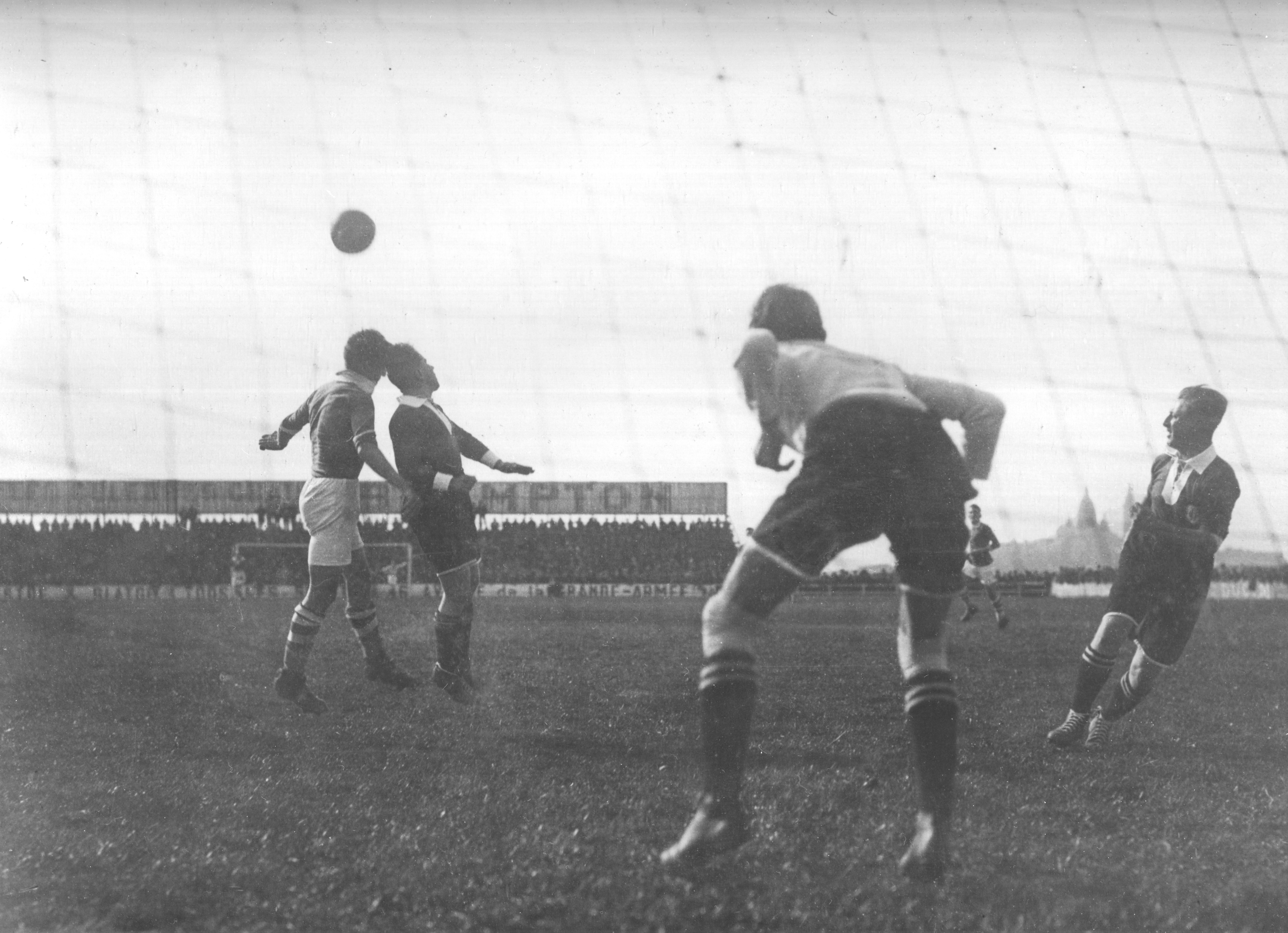 Scene in front of the German goal from the game Olympique de Paris v. FC Freiburg (1:4) at the Stade Bergeyre in Paris. Date: 20.9.1925. (L. t. r. : (French centre forward), Bantle, Rieger, Röhler)